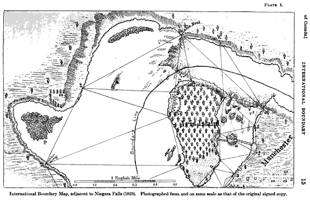 1819 map of the International Boundary Line at Niagara Falls, based on the work of the Boundary Commission of 1819. Drawn by Commissioners Peter B. Porter and Anth. Barclay, and surveyors William A. Bird and David Thompson, based on boundary rules established under the Treaty of Ghent. Map is oriented so north points to right edge of map. American side includes Iris Island (now Goat Island) and town labeled Manchester (now Niagara Falls, New York).